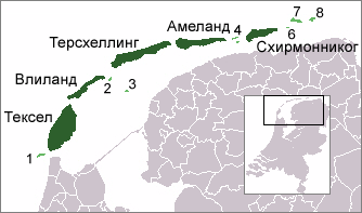 Map of West Frisian Islands in Russian